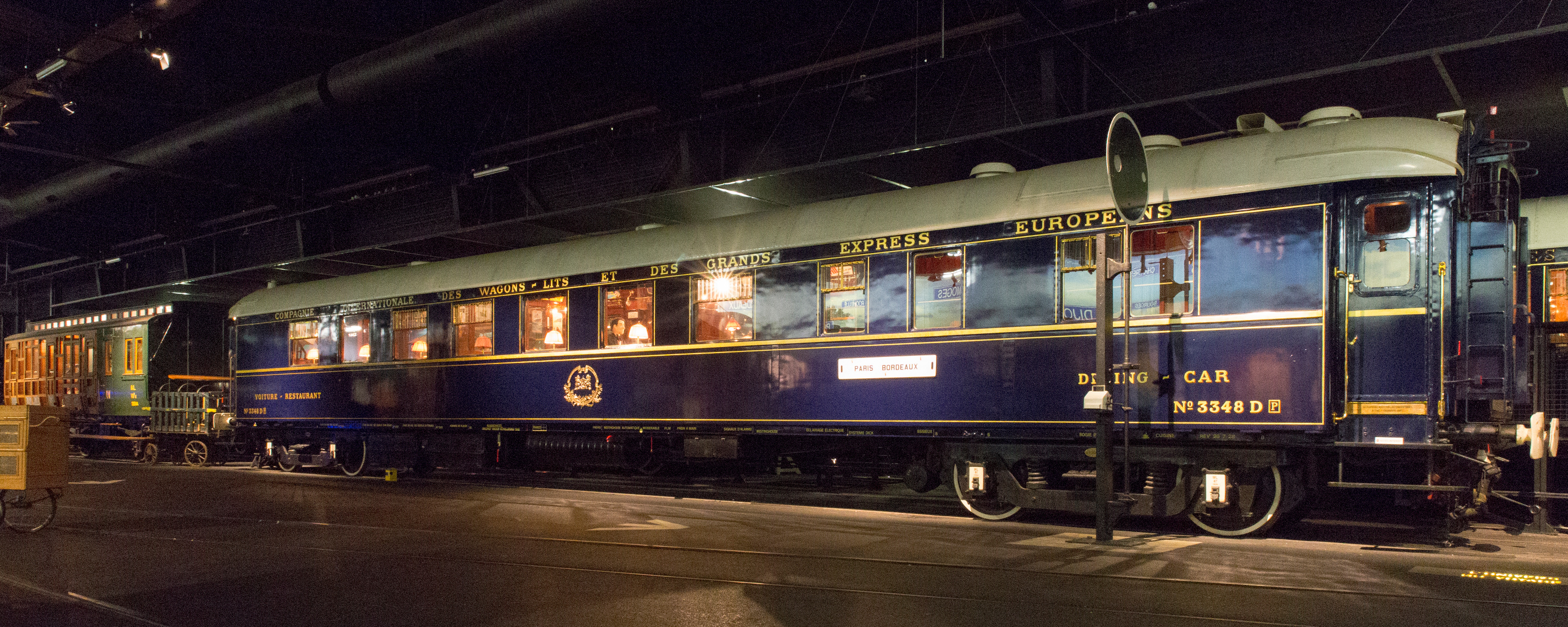 Dining car CIWL 3348